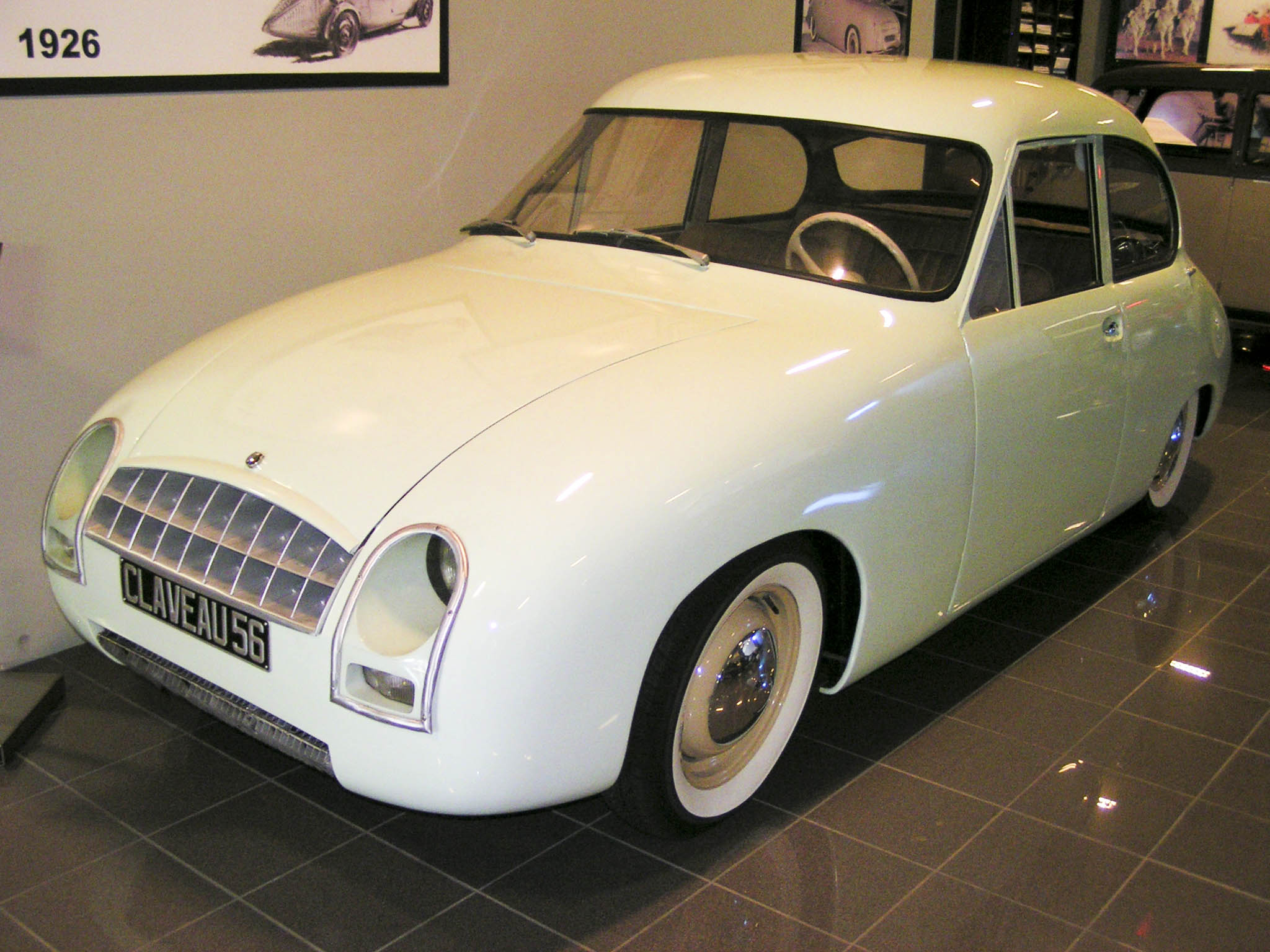 Prototype designed by Ḗmile Claveau. Features a DKW three cylinder, two stroke engine and a four speed manual gearbox with column change. Advanced for the day with front wheel drive, all independent suspension and unibody design. The car was presented at the 1955 Paris auto show but a gas tank was never installed. The owner recently installed a car tank and has driven the car fifty years after being built. Check out this page as well as a video of it driving. Claveau Prototype